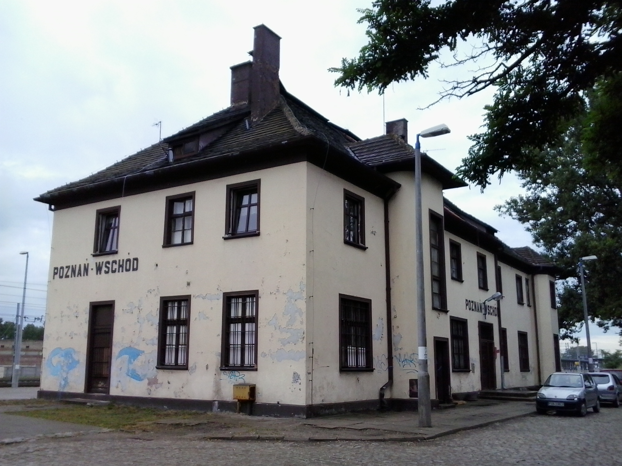 Poznań Wschód - railway station.